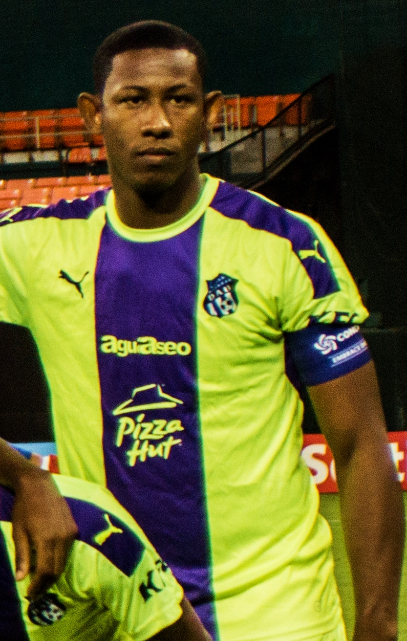 2015/16 Scotiabank CONCACAF Champions League (DC United vs. Deportivo Arabe Unido) (Sept. 2015) Fidel Caesar